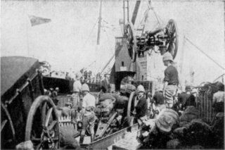 15 pr 7 cwt BL field guns of 21 Battery RFA arriving in Durban from India during the Second Boer War. Axle spades and trail springs had not been fitted to guns arriving from that country. This Battery served in the Siege of Ladysmith.